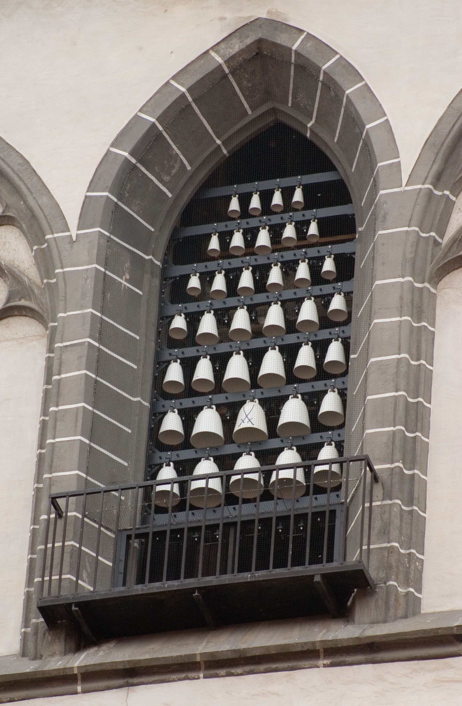 bells from porcelain, Frauenkirche, Meißen, Germany